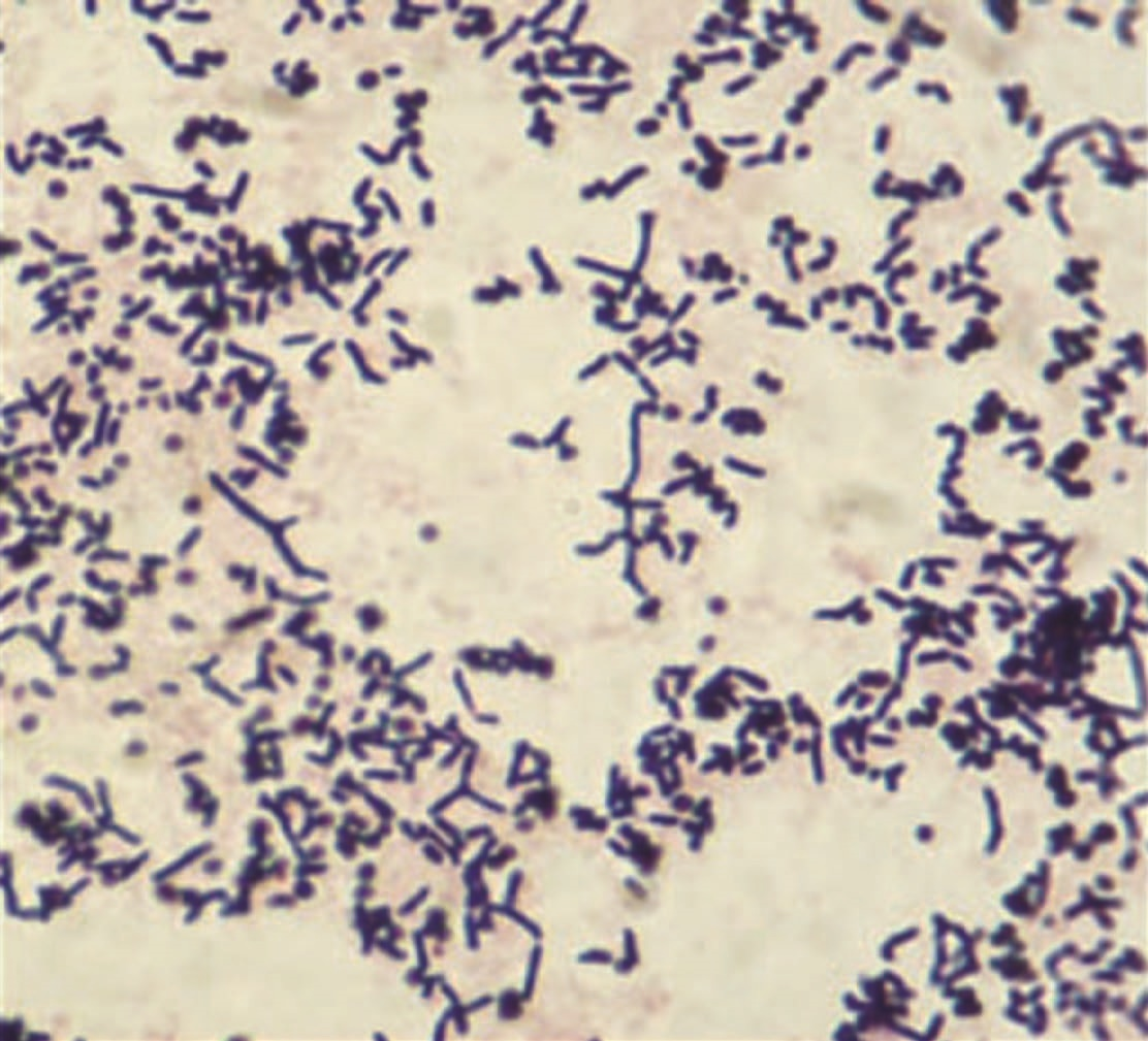 Gram stain of Rothia dentocariosa. Characteristic cocoid and bacillar shapes of the agent are observed.